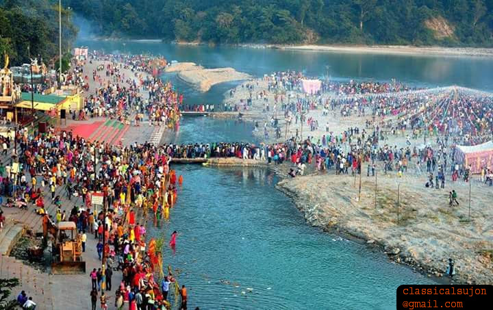 Triveni Ghat is situated bank of the holy river Ganges. This scared ghat used for bath for most of pilgrims. The main daily event of the attraction is the evening Aarti of Goddess Ganga also commonly called as "Maha Aarti". You can see the devotee's offers prayer during aarti.